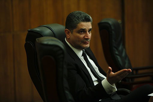 Portrait of Tigran Sargsyan from PAN Photo Agency archive